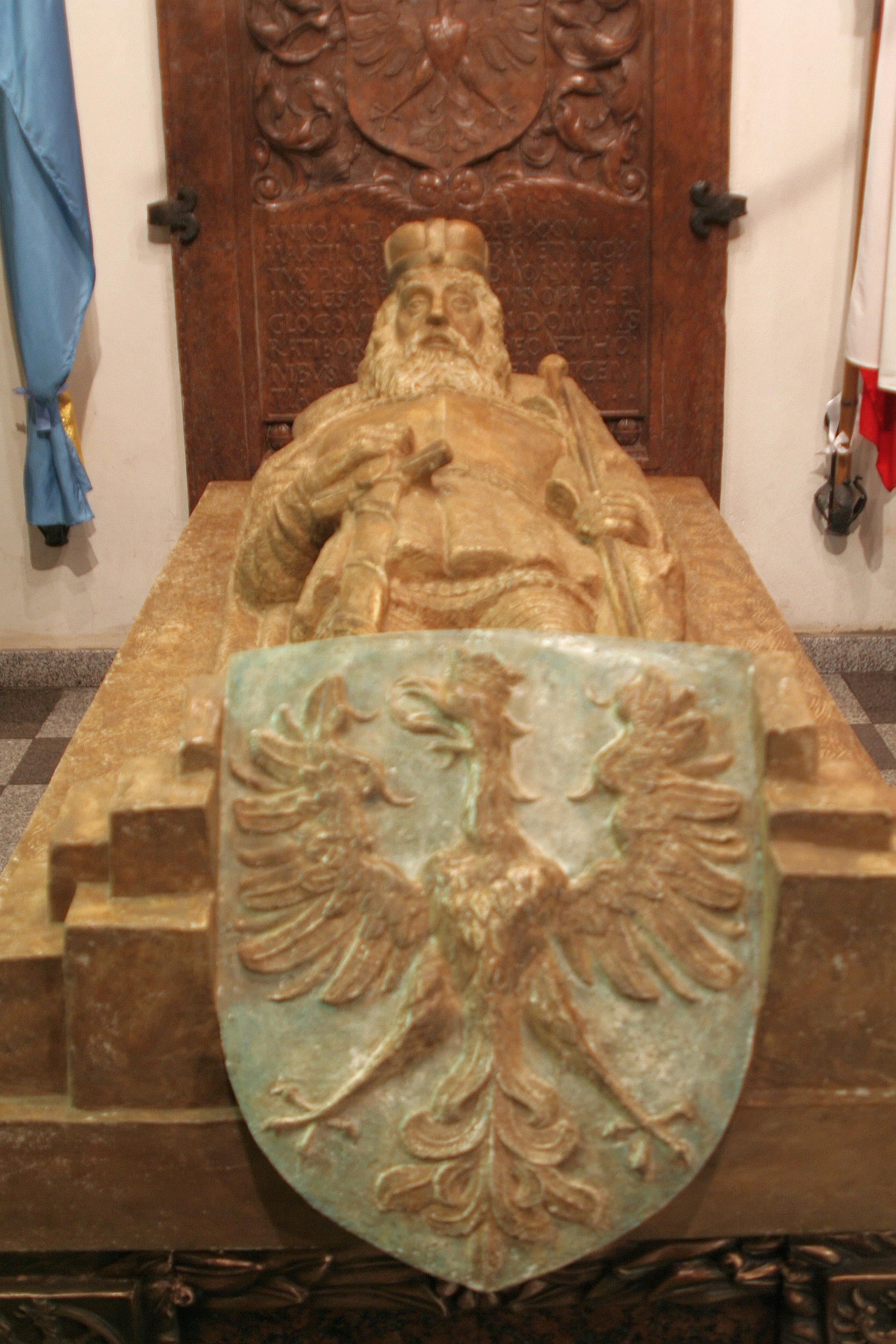 Sarkofag księcia opolskiego Jana II Dobregow Katedrze św. krzyża w Opolu.